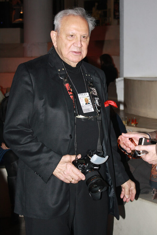 Ron Galella at the powerHouse Arena, Dumbo, Brooklyn